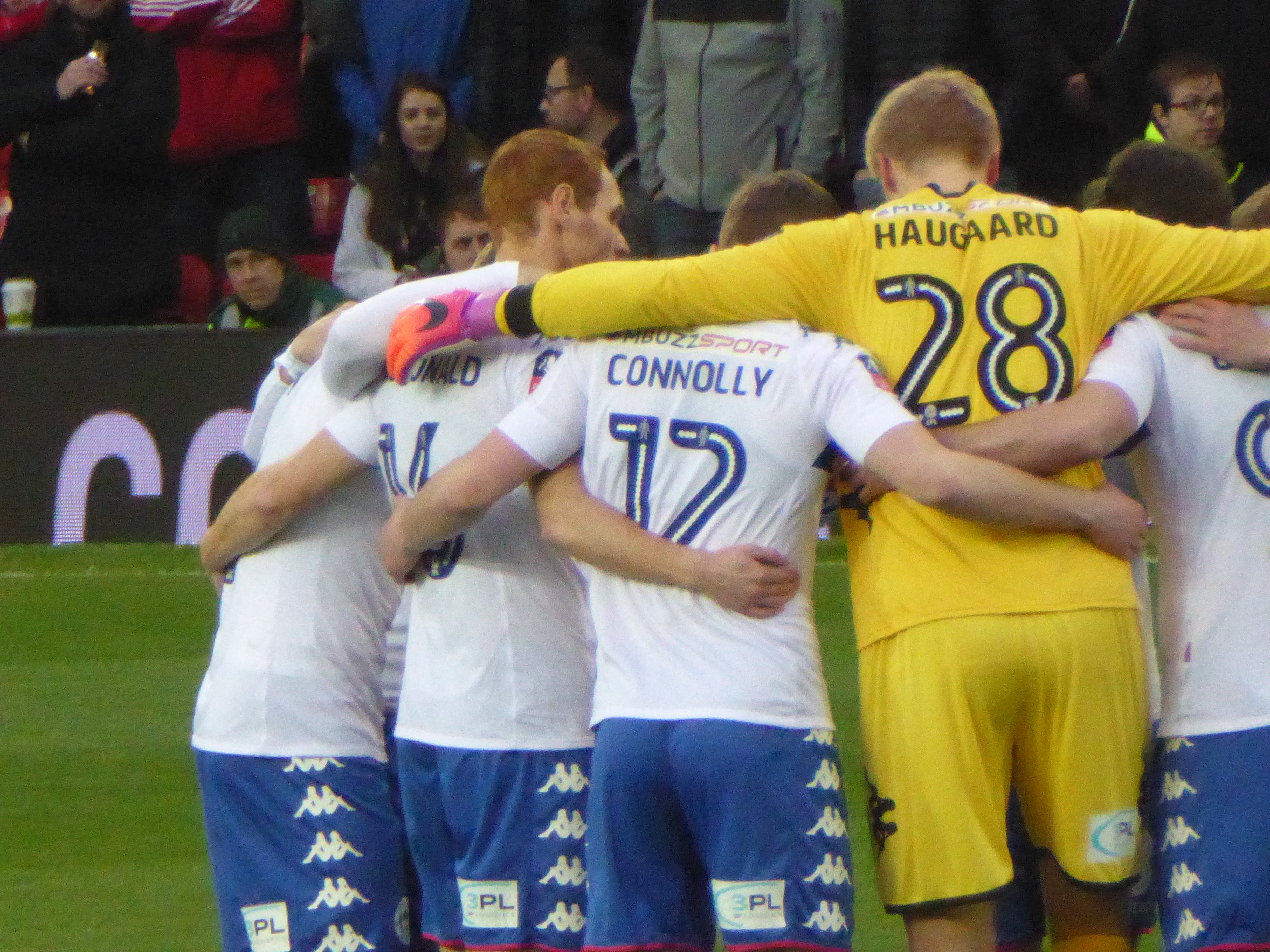 Manchester United v Wigan Athletic (4-0), FA Cup, Old Trafford, Manchester, Greater Manchester, England, 29 January 2017